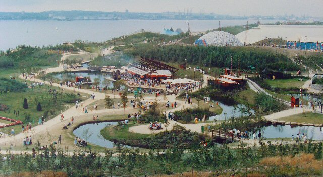 Liverpool Garden Festival Site. Built on reclaimed land in the Mersey made from Mersey Tunnel spoil.